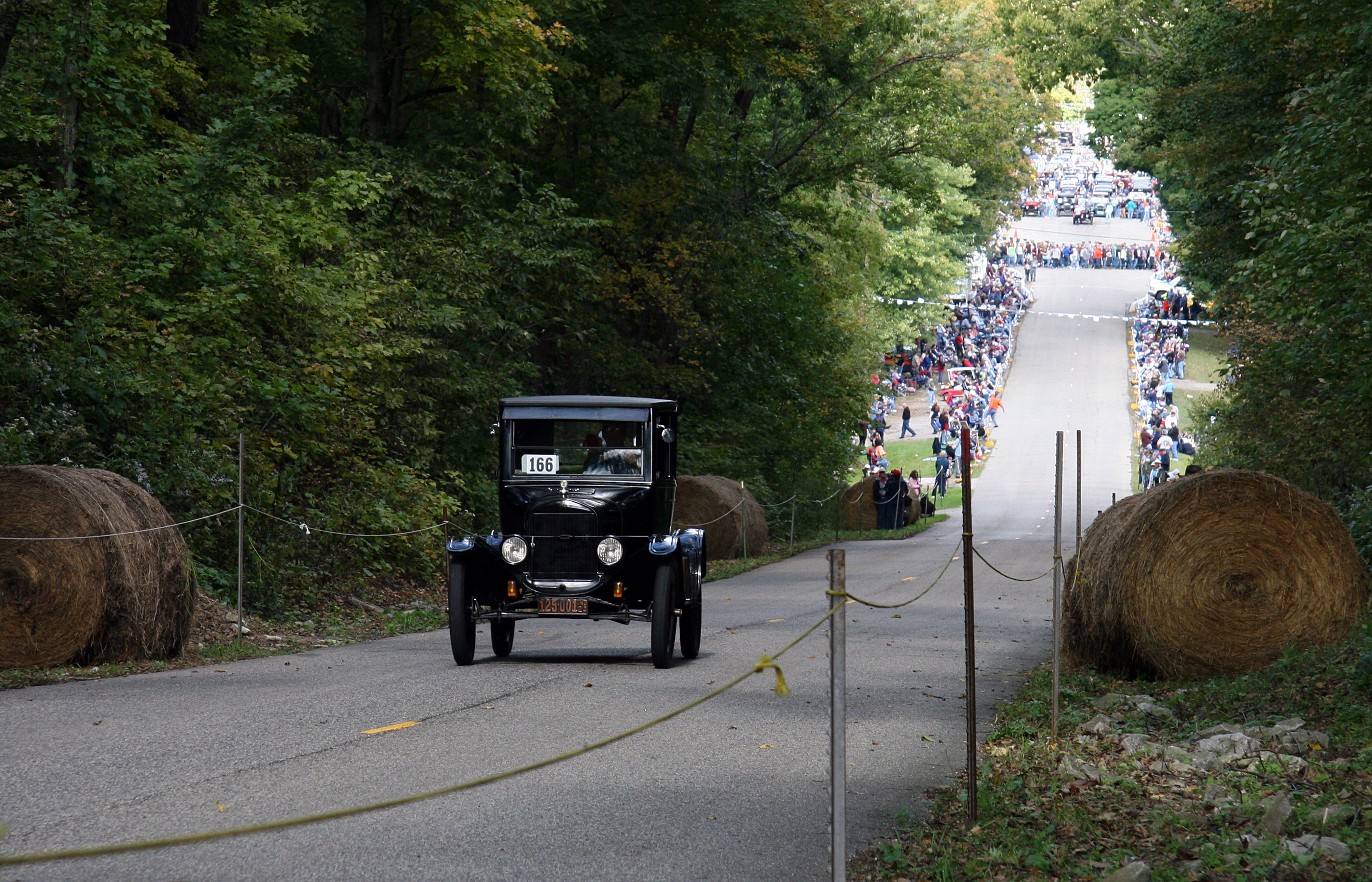 An antique Ford makes its ascent during the 2009 Newport Antique Auto Hill Climb in Newport, Indiana. Photo looks north down Main Street.